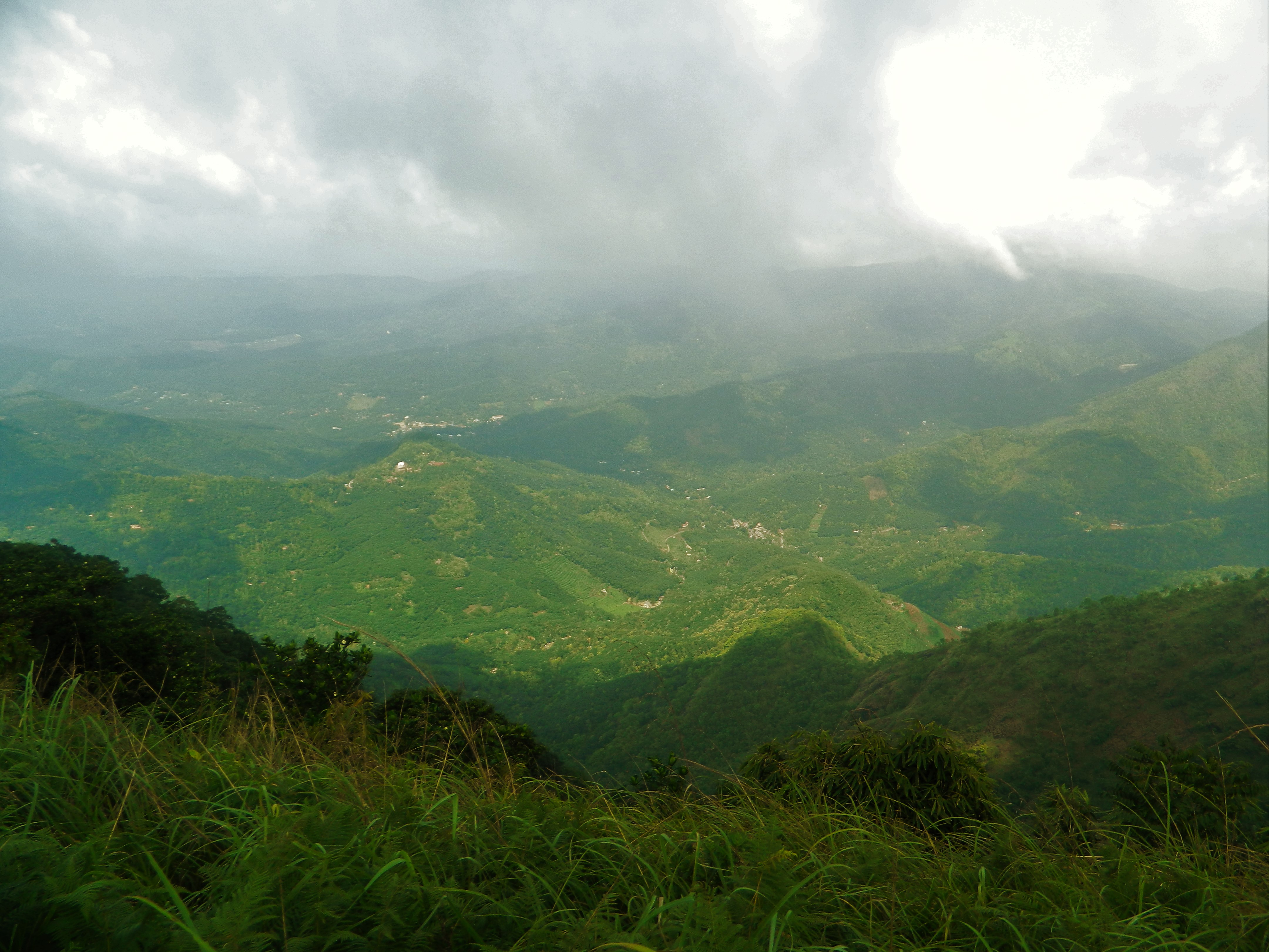 Near Thekkady in Kerala. The Cardamom Hills are southern hills of India and part of the southern Western Ghats located in southeast Kerala and southwest Tamil Nadu in South India.